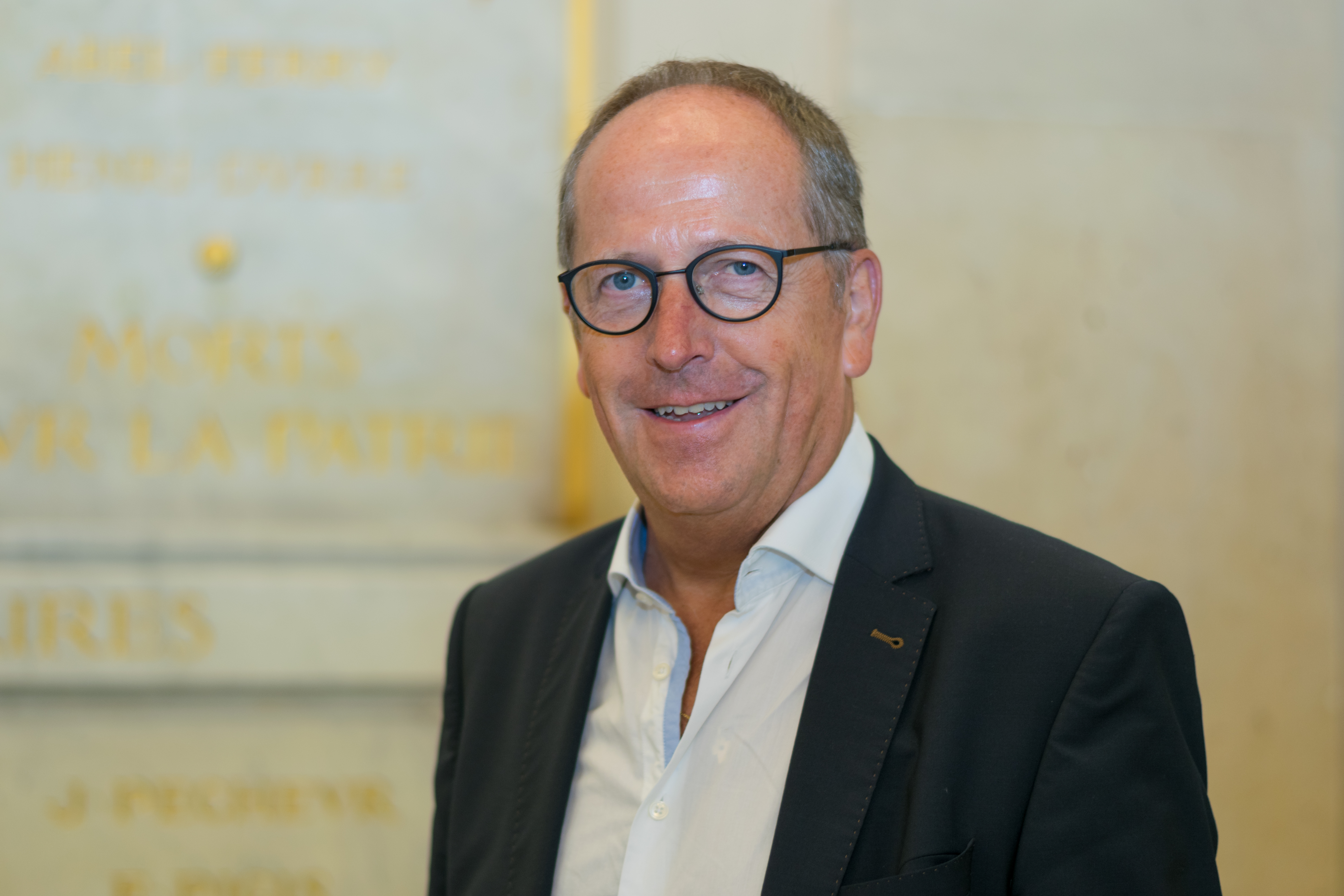 Rémi Delatte in the salle des Quatres Colonnes of the Palais Bourbon (Paris, France).